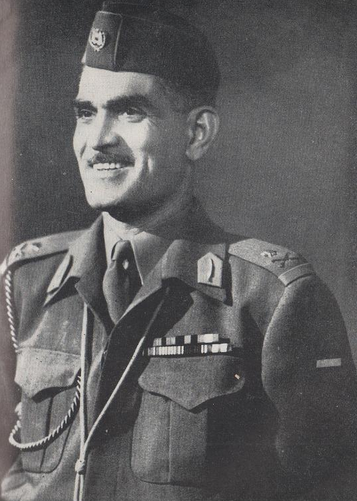 Abdul Karim Qasim (Kassem, Qassem etc.) prime minister of Iraq 1958-1963